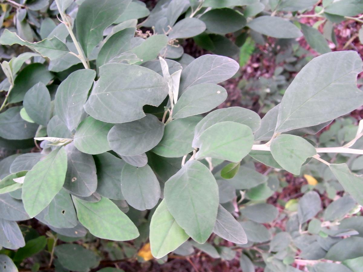 Pomaderris cinerea, labeled at Batemans Bay Botanic Gardens, Australia